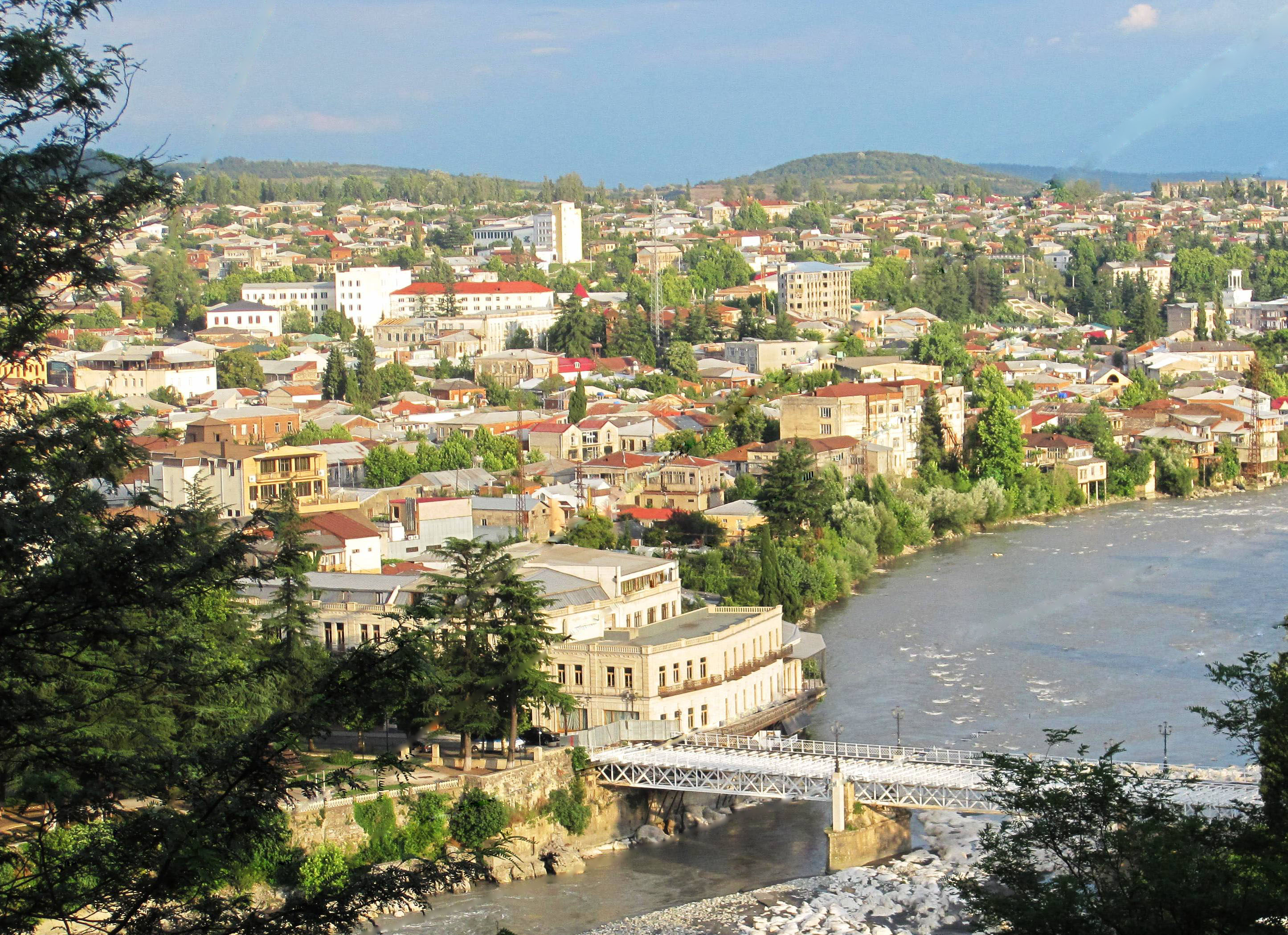 Downtown Kutaisi & White Bridge as seen from Mt Gora (August 2011)